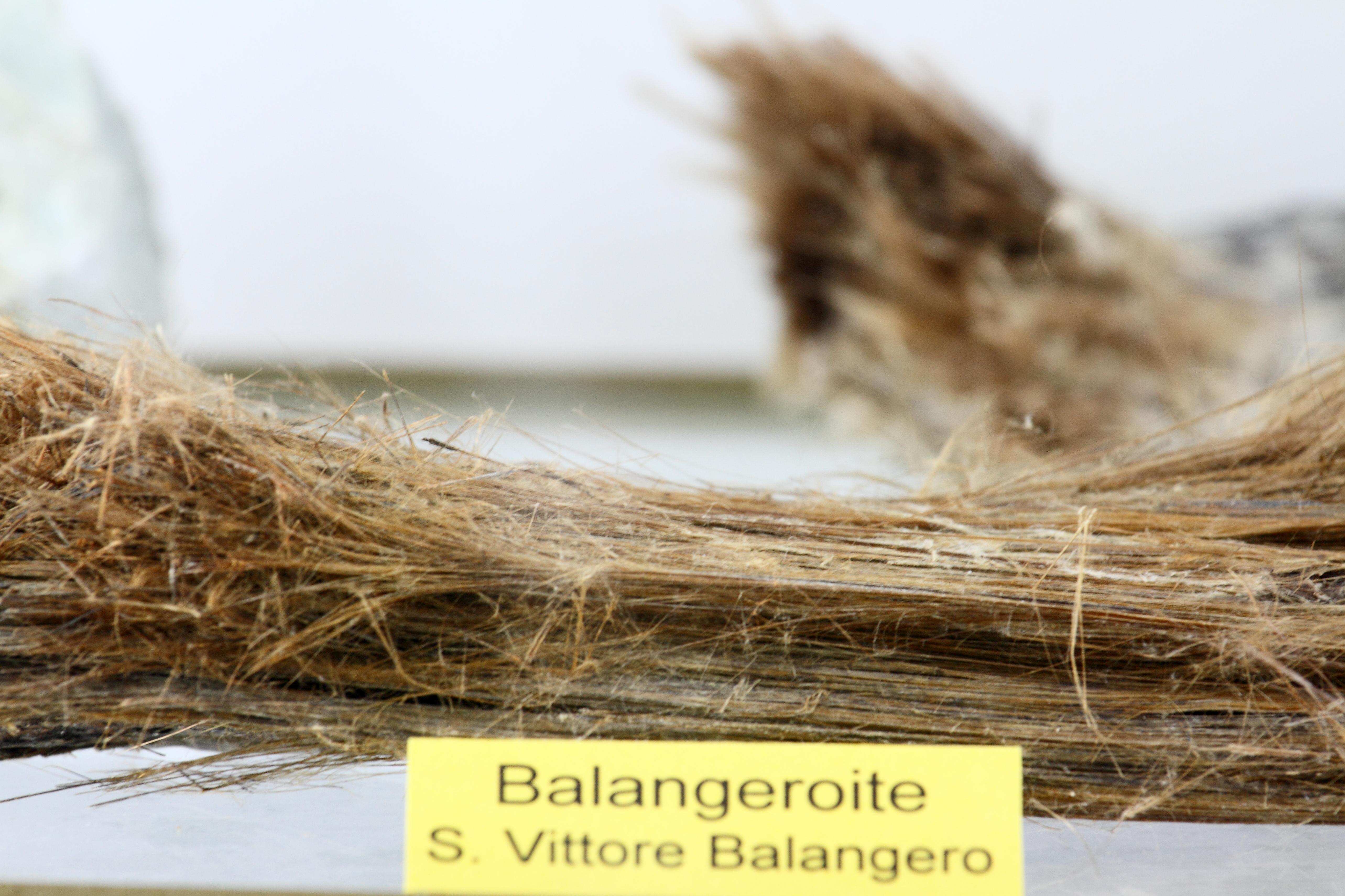 Balangeroite's fibers in the mineralogical museum of Lanzo Torinese (TO) - Italy